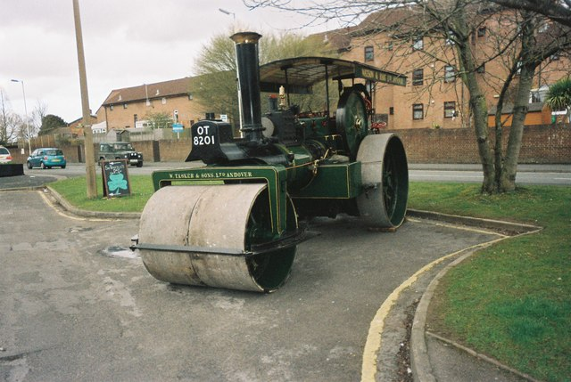 Andover - A Homecoming.